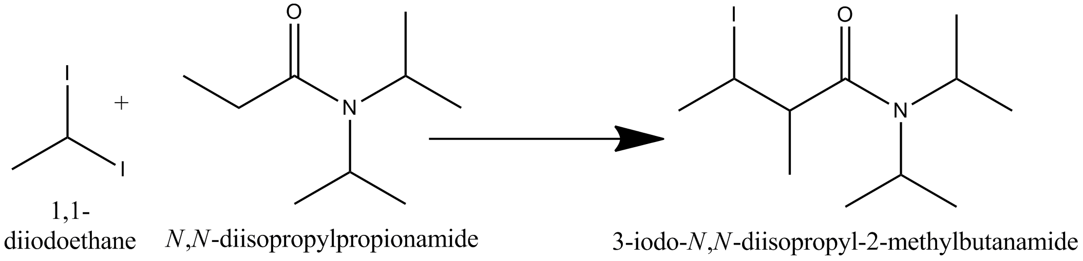 The example of enolate substitution using 1,1-diiodoethane as a reactant created by ChemBioDraw